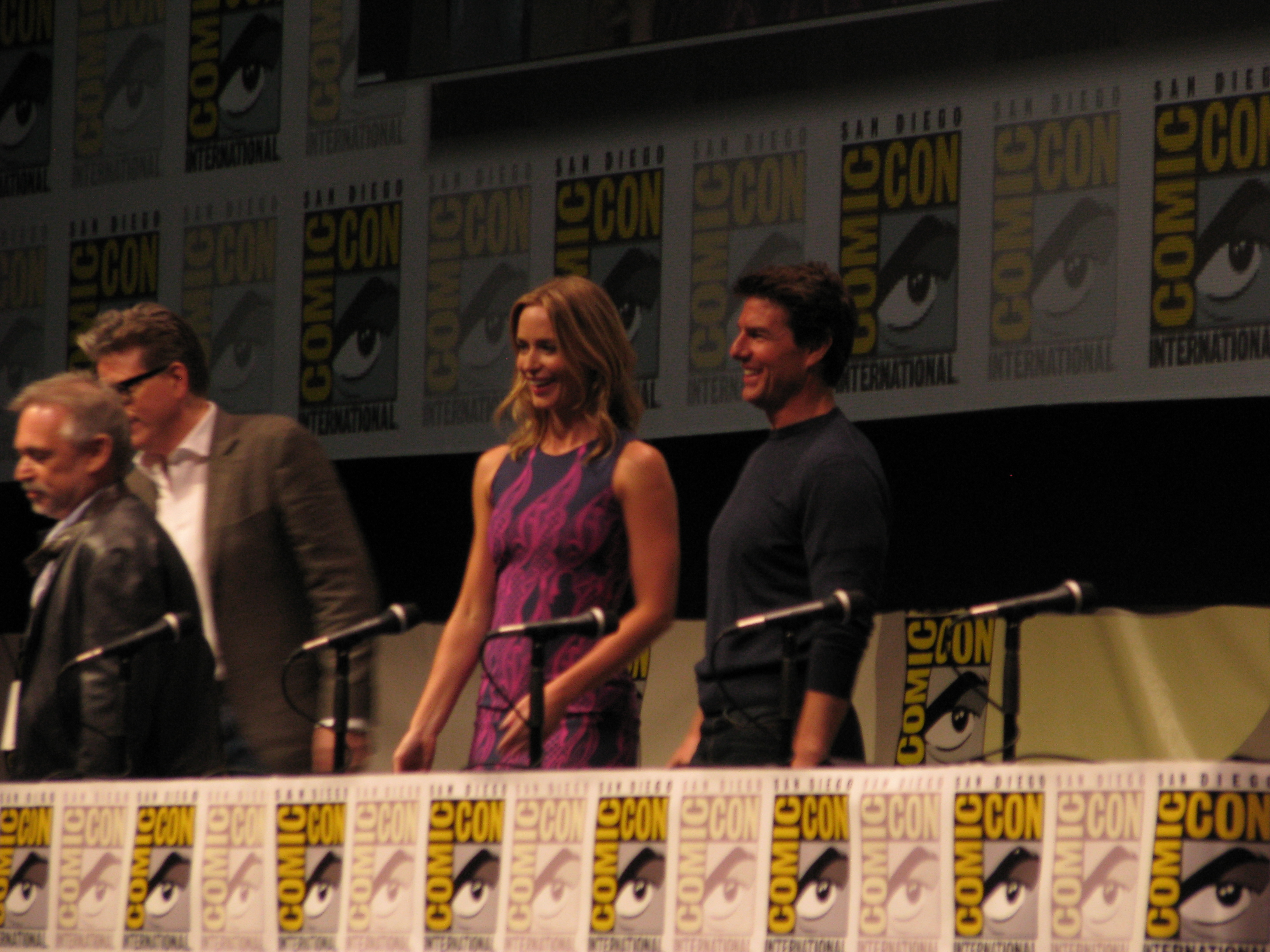 The Edge of Tomorrow panel with Emily Blunt and Tom Cruise